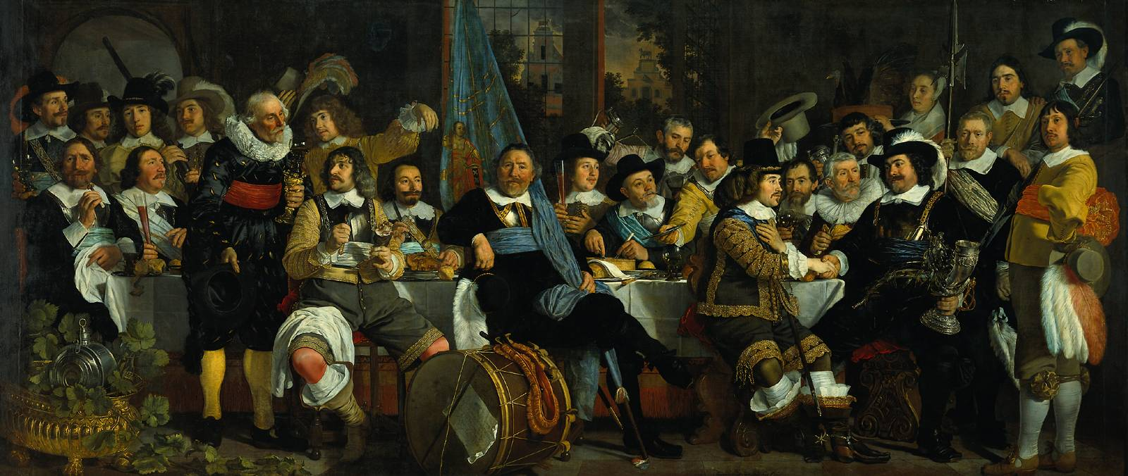 Celebration of the peace of Münster, 18 June 1648, in the headquarters of the crossbowmen's civic guard (St George guard), Amsterdam. The people portrayed are: (right, with silver horn) captain Cornelis Jansz. Witsen, (shakes hand of previous) lieutenant Johan Oetgens van Waveren, (seated behind the drum, with flag) reserve officer candidate Jacob Banning, sergeants Dirck Claesz. Thoveling and Thomas Hartog. Additionally: Pieter van Hoorn, Willem Pietersz. van der Voort, Adriaen Dirck Sparwer, Hendrick Calaber, Govert van der Mij, Johannes Calaber, Benedictus Schaesk, Jam Maes, Jacob van Diemen, Jan van Ommeren, Isaac Ooyens, Gerrit Pietersz. van Anstenraadt, Herman Teunisz. de Kluyter, Andries van ANstenraadt, Christoffel Poock, Hendrick Dommer Wz., Paulus Hennekijn, Lambregt van den Bos and Willem the drummer.